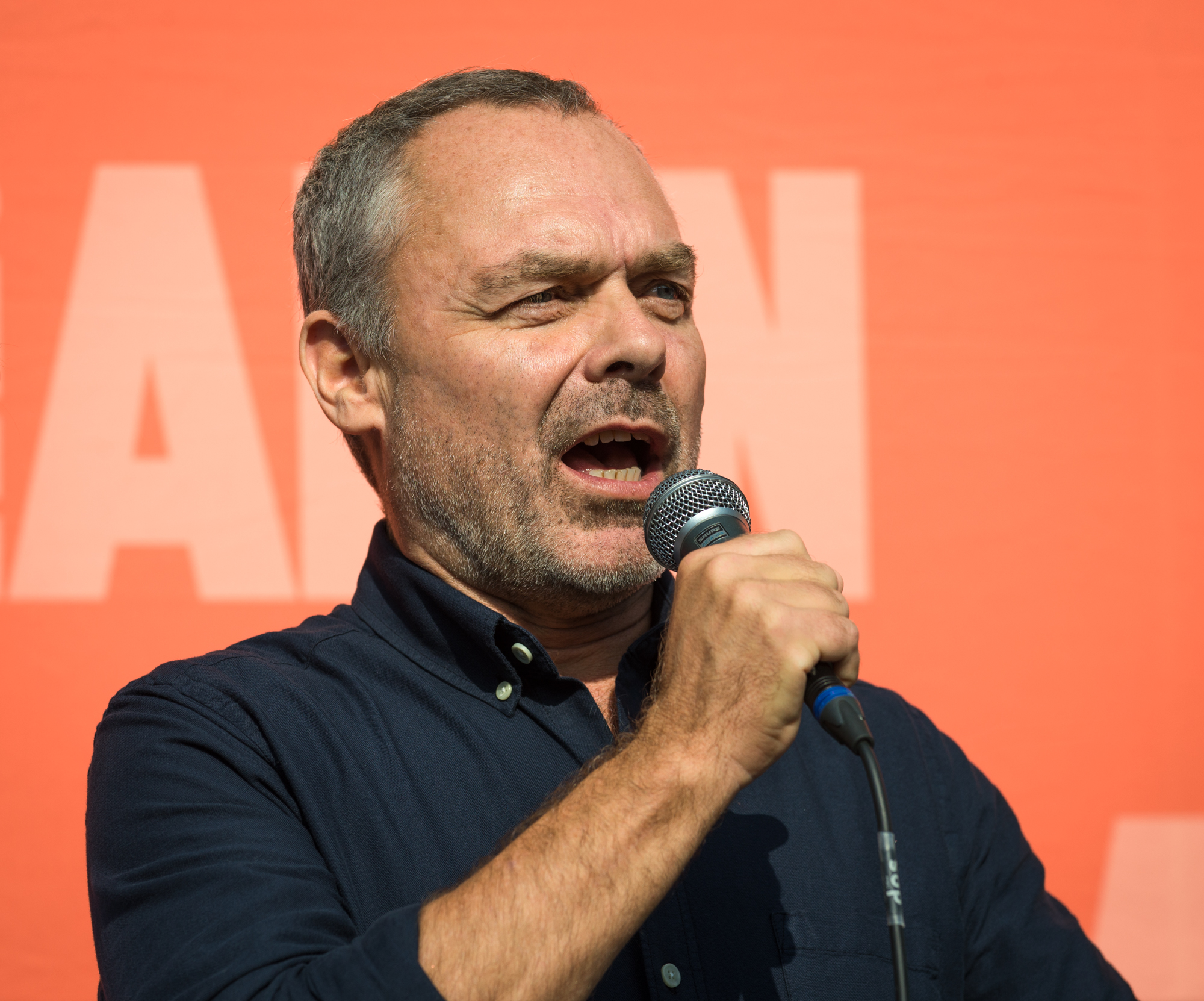 Jan Björklund at Soltorget at Sergel's square in Stockholm the day before the election day, September 8, 2018.